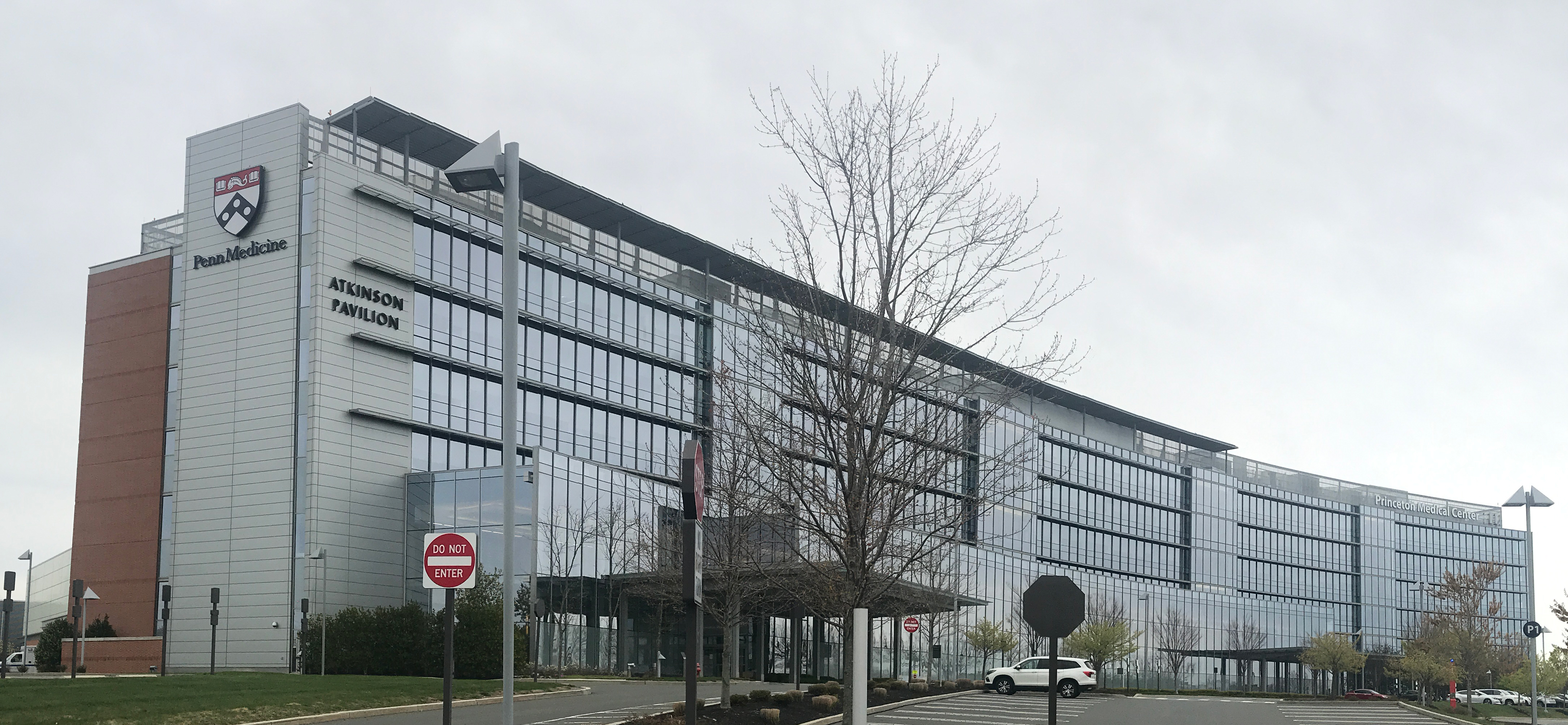 A panorama of the Atkinson Pavilion of the Penn Medicine Princeton Medical Center in Plainsboro, New Jersey.